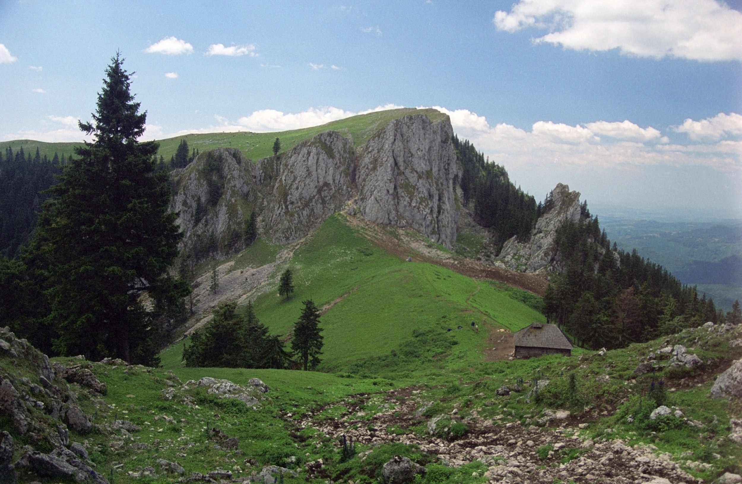 The Buila-Vânturarița National Park in Căpăţânii Mountains, Romania.